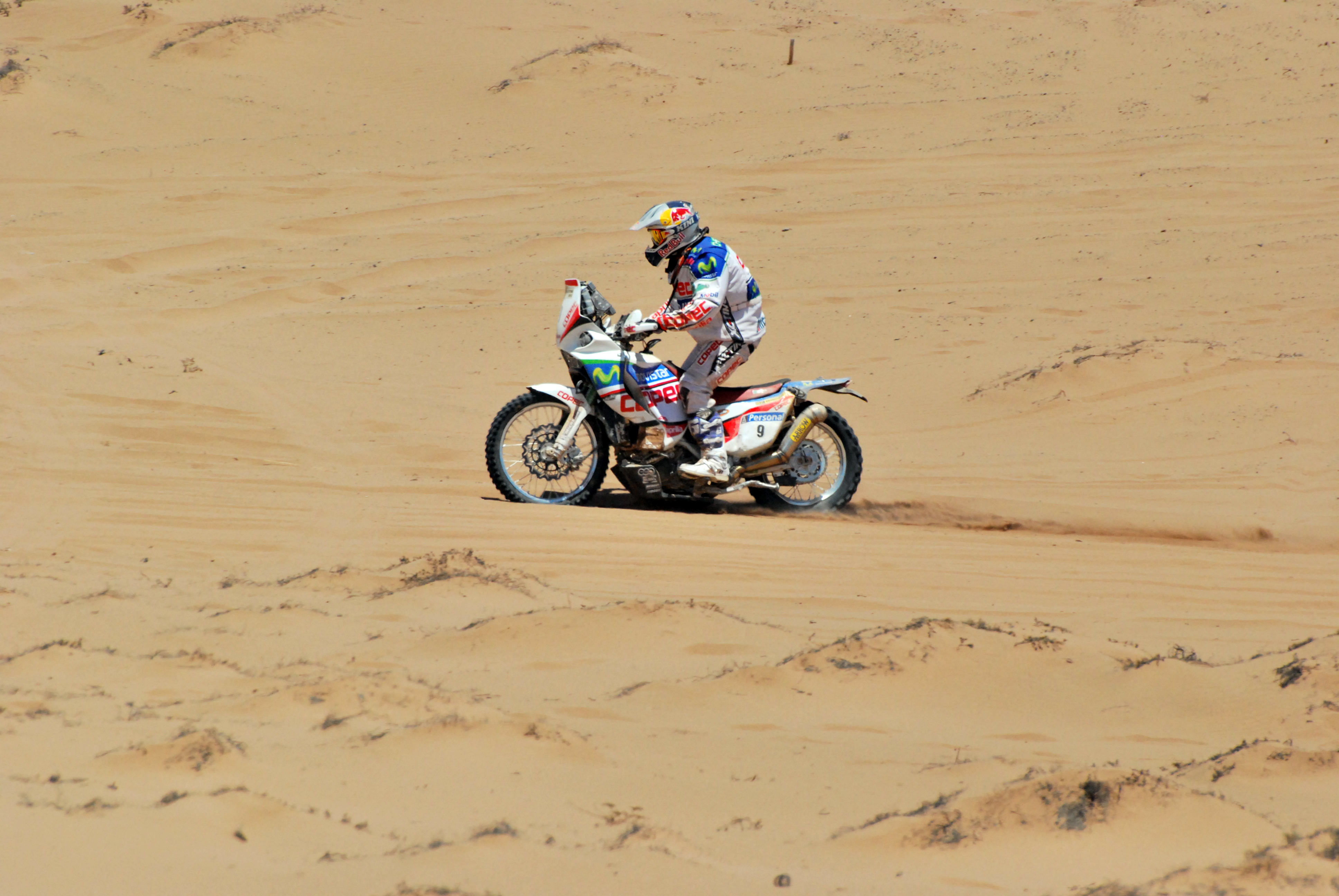 Francisco Chaleco López running in the Dakar Rally 2010, near Copiapó.